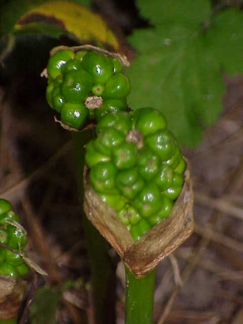 Species: Arum maculatum Family: Araceae Image No. 4